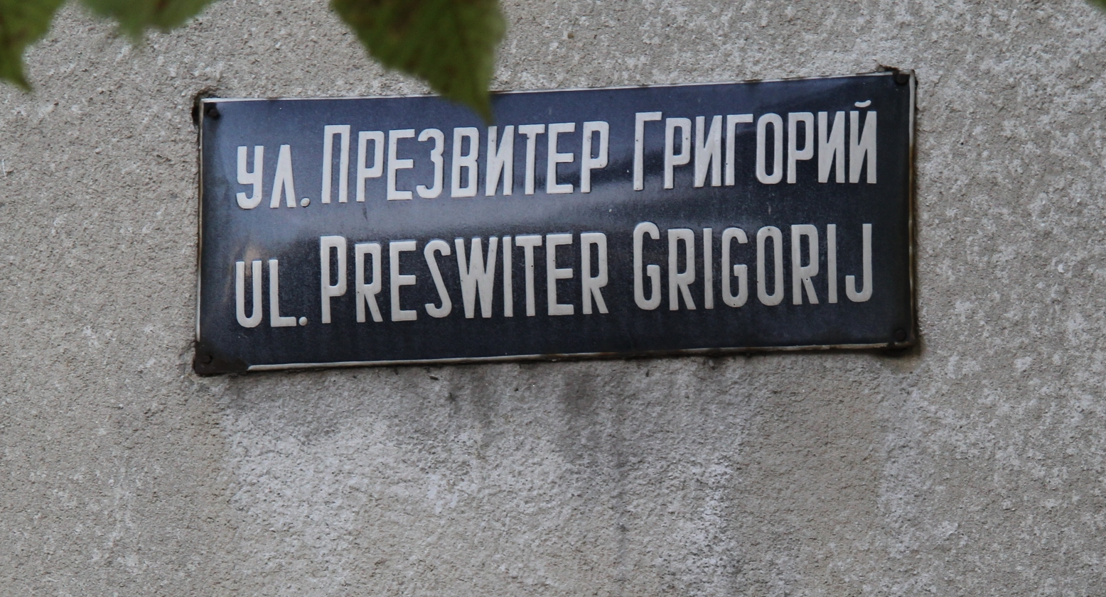 Photo giving ideas about a slavic language's transliterations